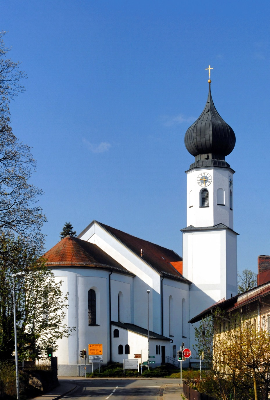 Bad Endorf, Church St. Jakob